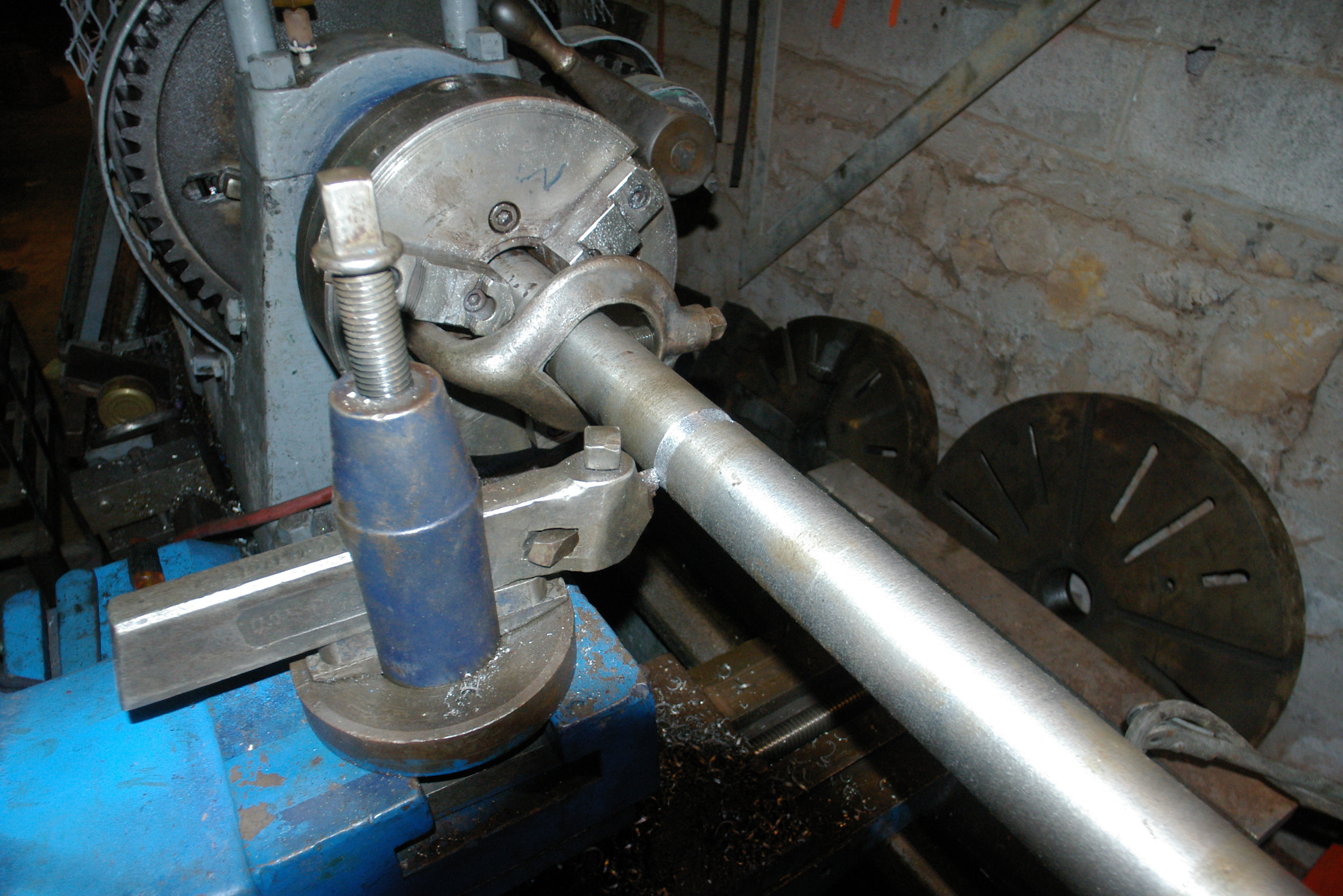 Bent tail lathe dog hooked on a chuck jaw. The work is actually on a Center and is not clamped in the chuck.